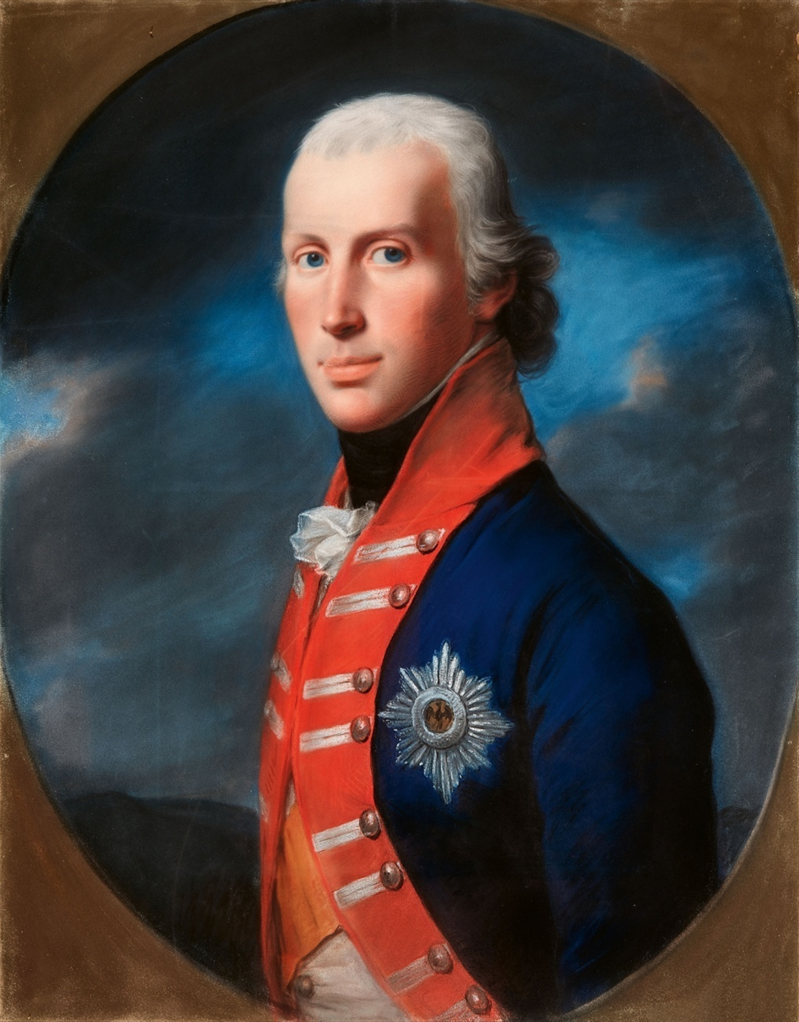 Porträt Kronprinz Friedrich Wilhelm III. von Preußen (1770-1840) 69.5 x 55 Provenienz Kaiser Friedrich Palais Berlin, Zimmer 244, Inv. Nr. 89. - Sammlung Schaumburg-Lippe. - Lempertz Auktion Palais Schaumburg, Bonn, Besitz von Viktoria, geborene Prinzessin von Preußen, verh. Zoubkoff, 1929, Lot 1215. - Lempertz Auktion, 12.11.1975, Lot 246.- Rheinische Privatsammlung.